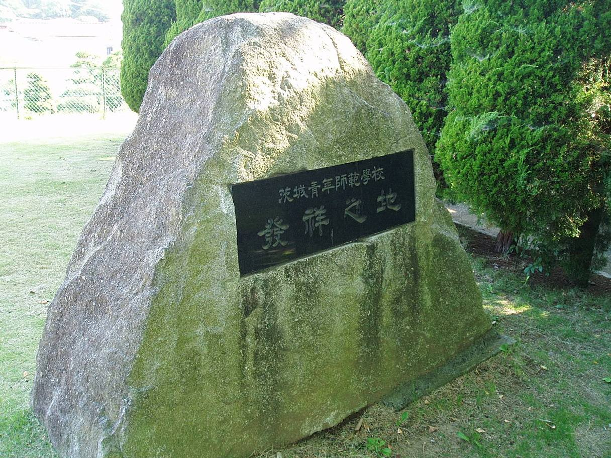 A monument of the birthplace of Ibaraki Normal School for Youth, one of the predecessors of Ibaraki University, located in Mito, Ibaraki, Japan.The school was located here from 1903 to 1945.